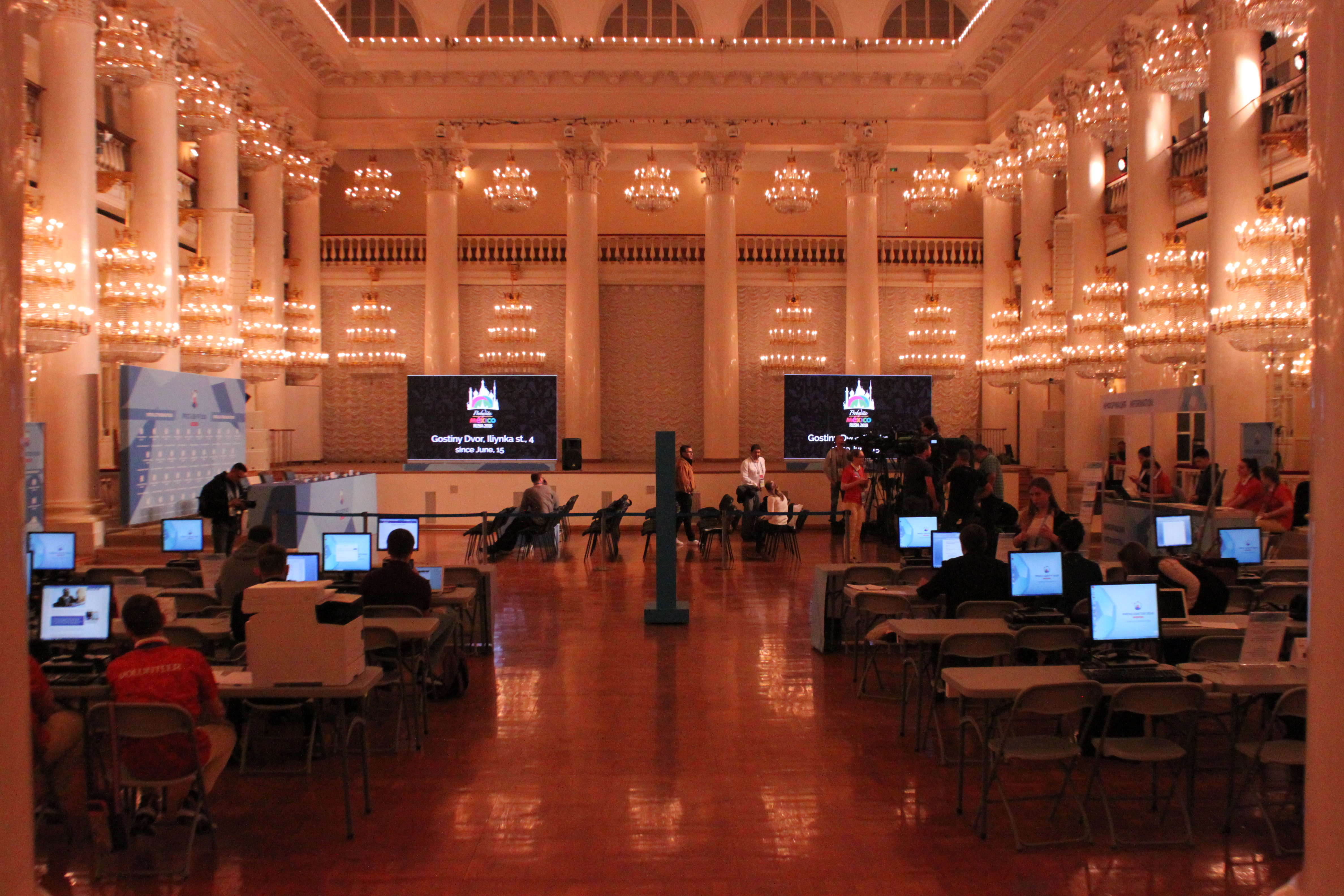 Moscow press-center on June 11, 2018.